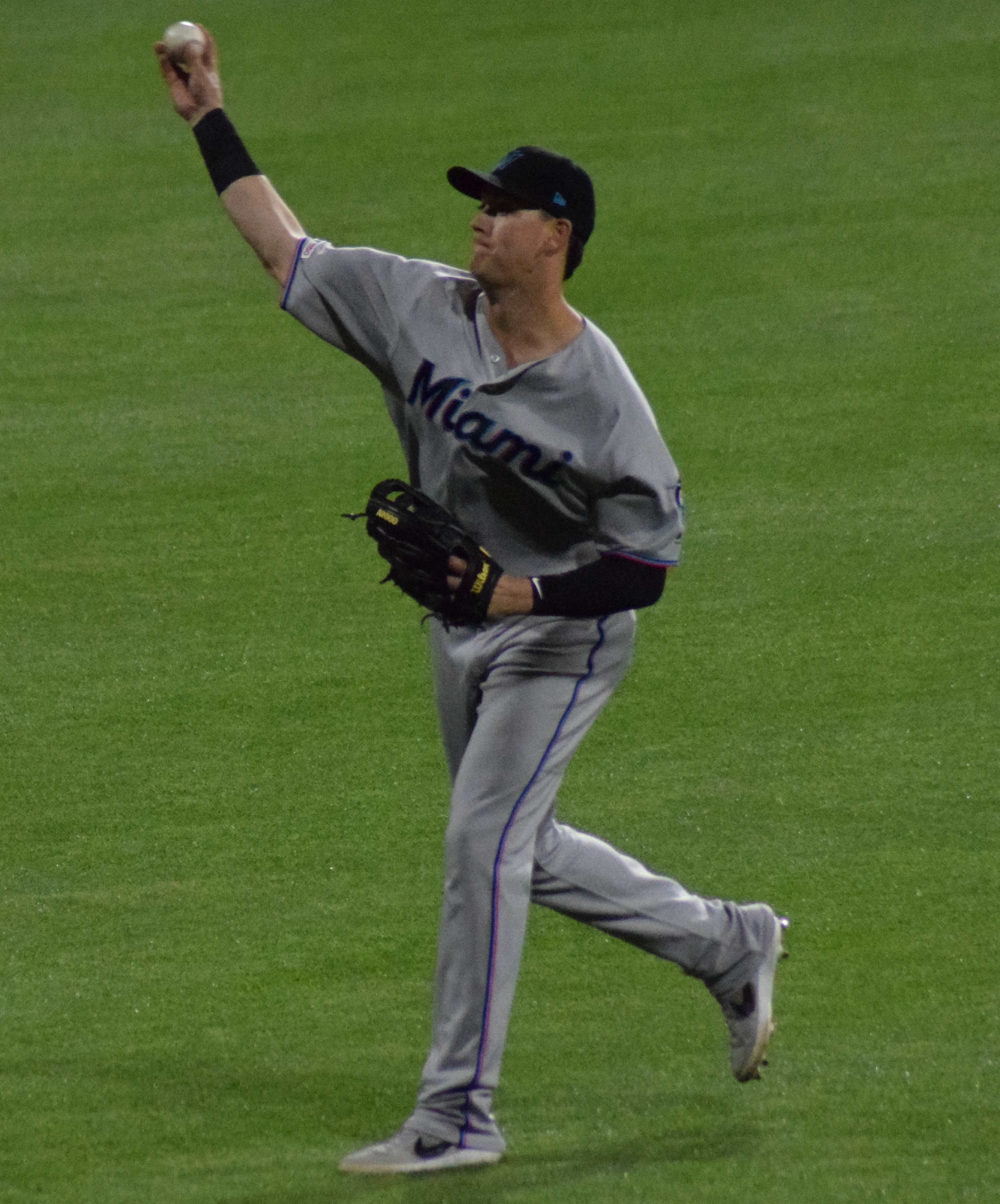 Brian Anderson